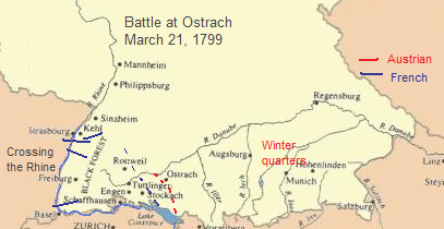 map showing location of battle of Ostrach, 1799, and the general disposition of troops.